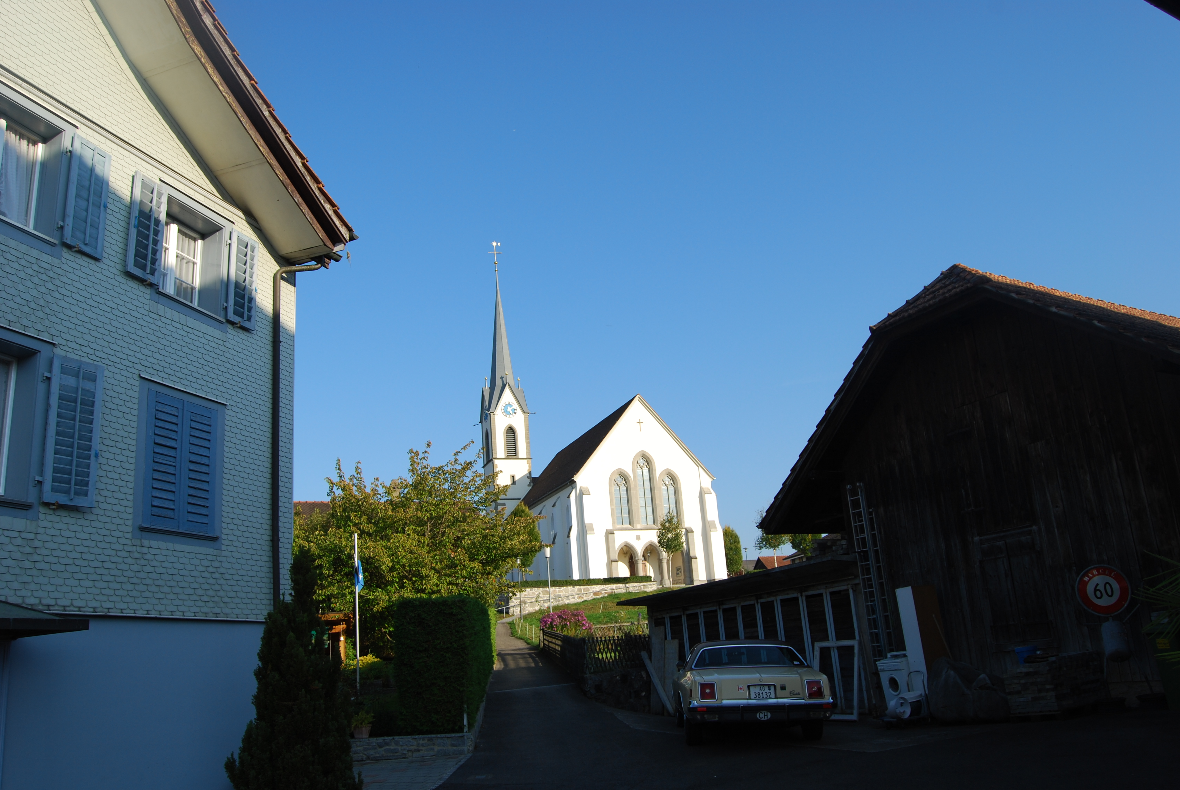 Church of Oberrüti, canton of Aargau, SwitzerlandEsperanto: Preĝejo de Oberrüti, Kantono Argovio, Svislando